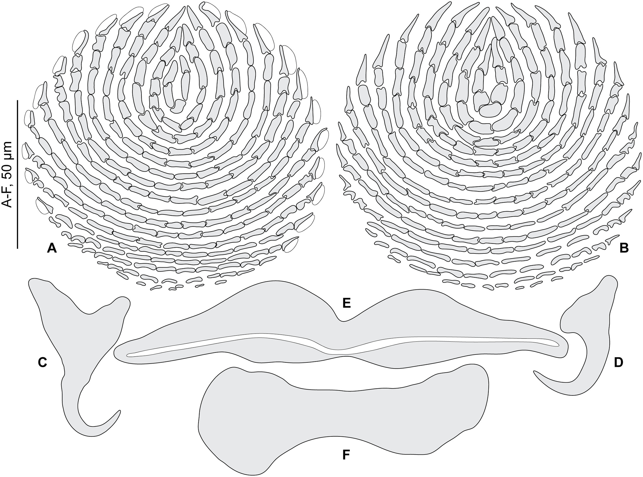 Figure 3 of paper Pseudorhabdosynochus riouxi from Mycteroperca marginata, squamodiscs and haptoral parts A, B, squamodiscs (A, dorsal; B, ventral); C-F, haptoral parts (C, ventral anchor; D, dorsal anchor; E, ventral bar; F, lateral bar). A, B, voucher MNHN HEL68 OLI8-70, France. C-F, MNHN HEL590, Tunisia. A-B, carmine; C-F, Berlese.